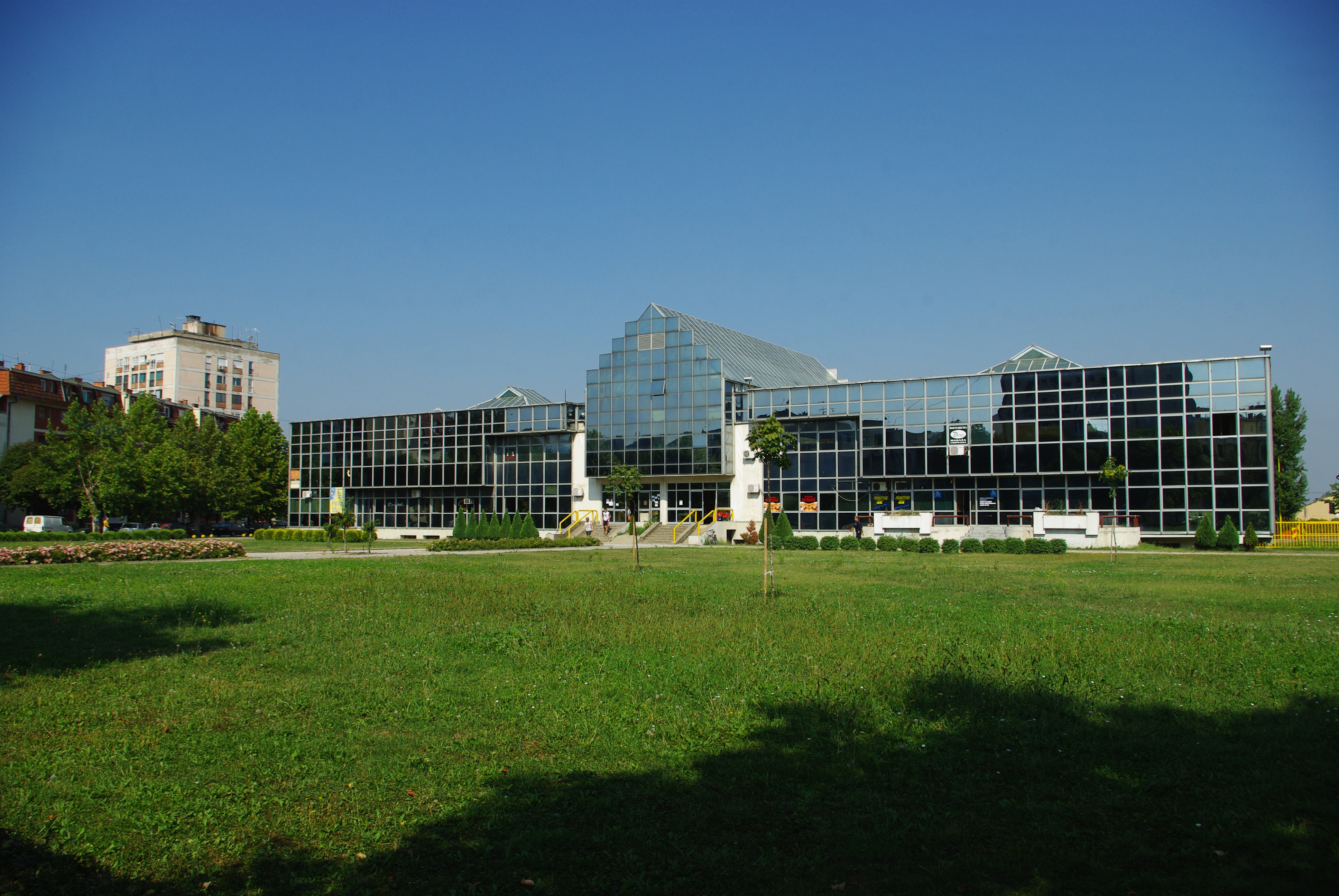 Central bus station in Loznica